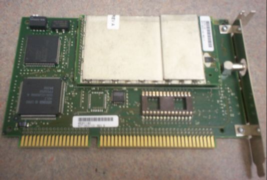 Picture of my own AT&T Wavelan half-height ISA 915 MHz wireless network card.